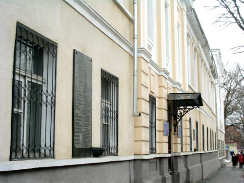 Simferopol Gymnasium No1